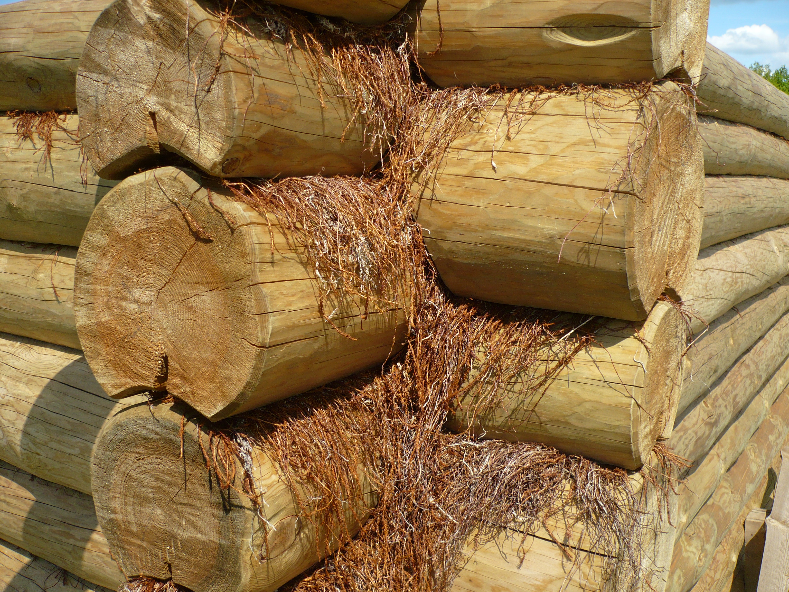 Angle of the logs, made by shaping "in oblo" ("the cup"). The museum, ecovillage "Korenskie springs."